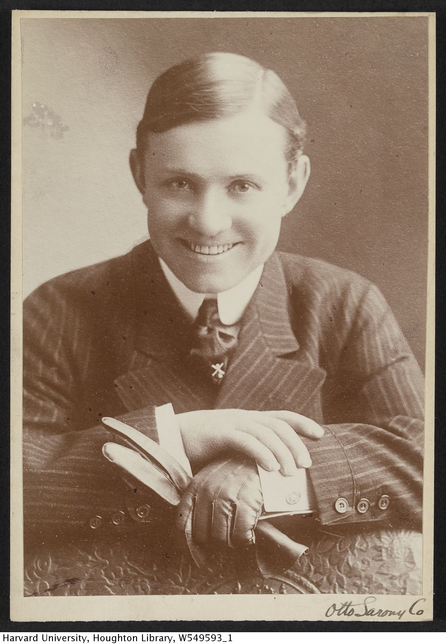 Cabinet card image of American actor/dancer David Montgomery (1870-1917). Photo by Otto Sarony (d. 1903). TCS 1.718, Harvard Theatre Collection, Harvard University